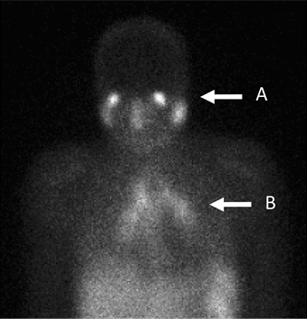 Gallium scan showing panda (A) and lambda (B) patterns The “panda pattern” shows salivary gland uptake, and mediastinal and hilar node uptake leads to the “lambda pattern”. Both of these are considered specific for Sarcoidosis in the absence of histological confirmation. The problem is that this pattern, whilst highly specific, is not sensitive, leading potentially to an underreporting of patients who may nonetheless have the disease.